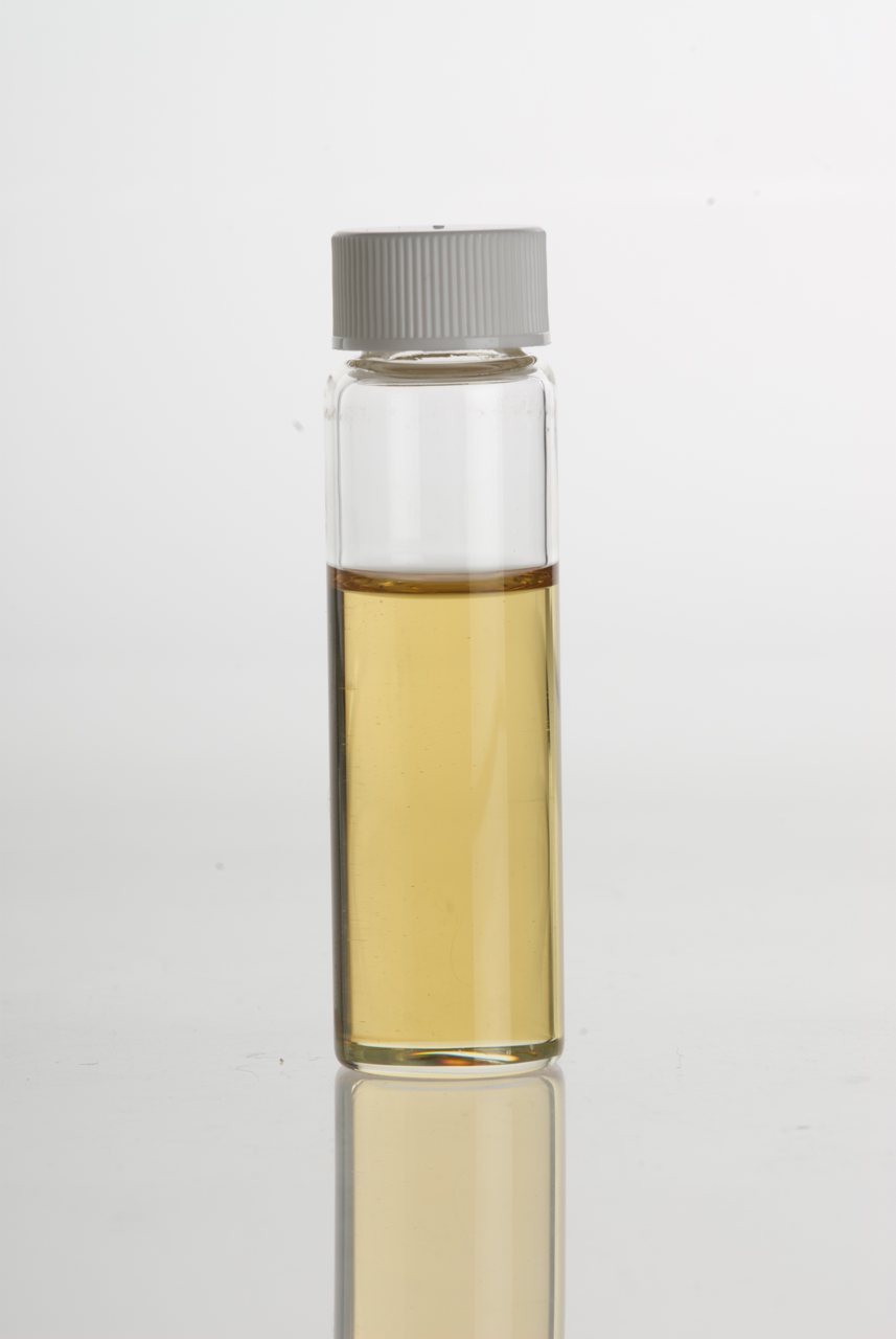 Sage (Salvia officinalis) Essential Oil in clear glass vial